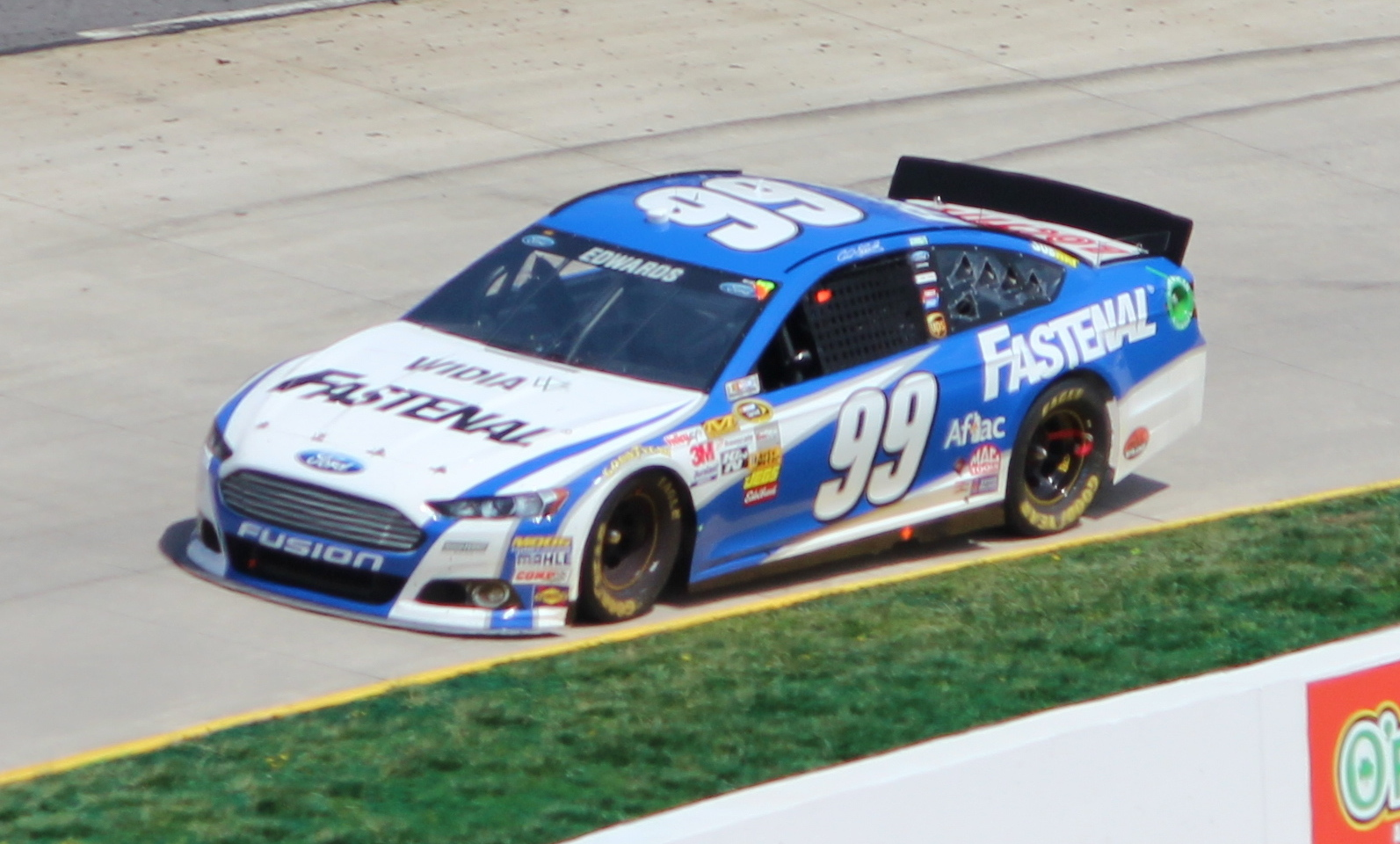 Carl Edwards races during the 2013 STP Gas Booster 500.